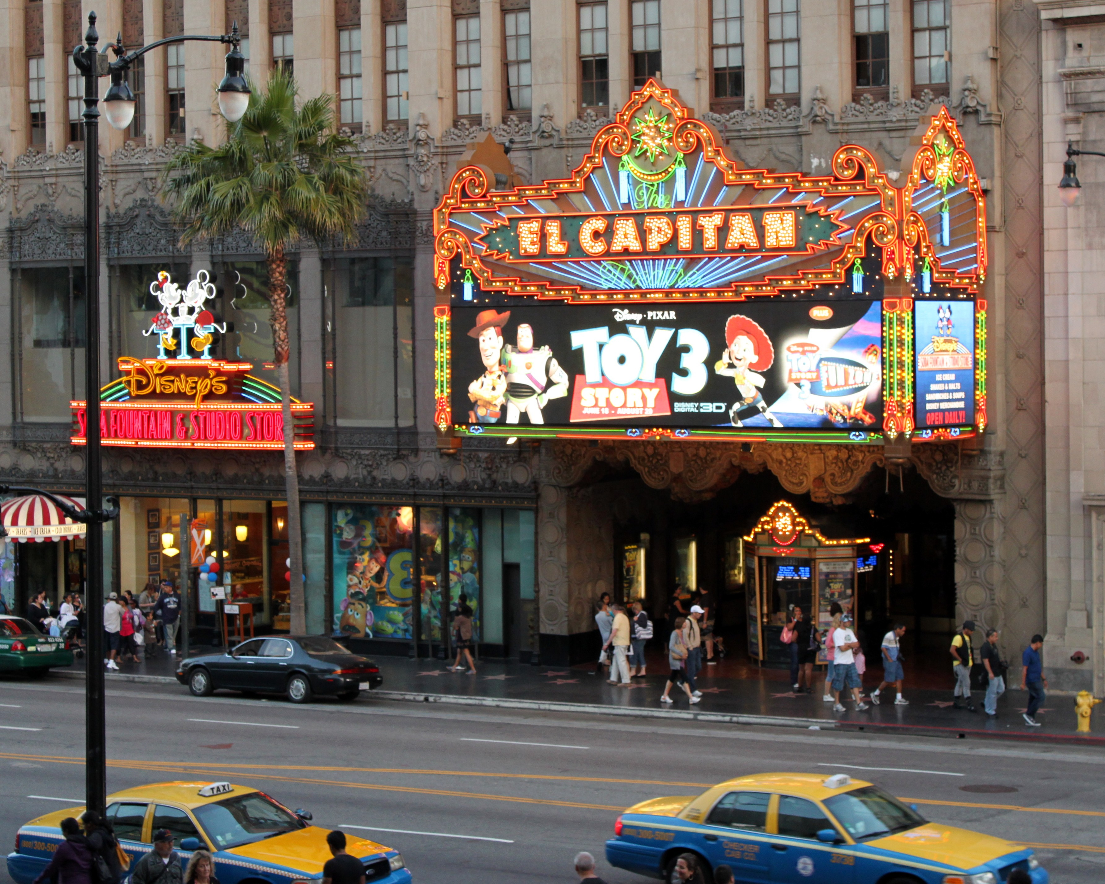 Toy Story 3 playing at El Capitan Theatre in Hollywood, Los Angeles, California.